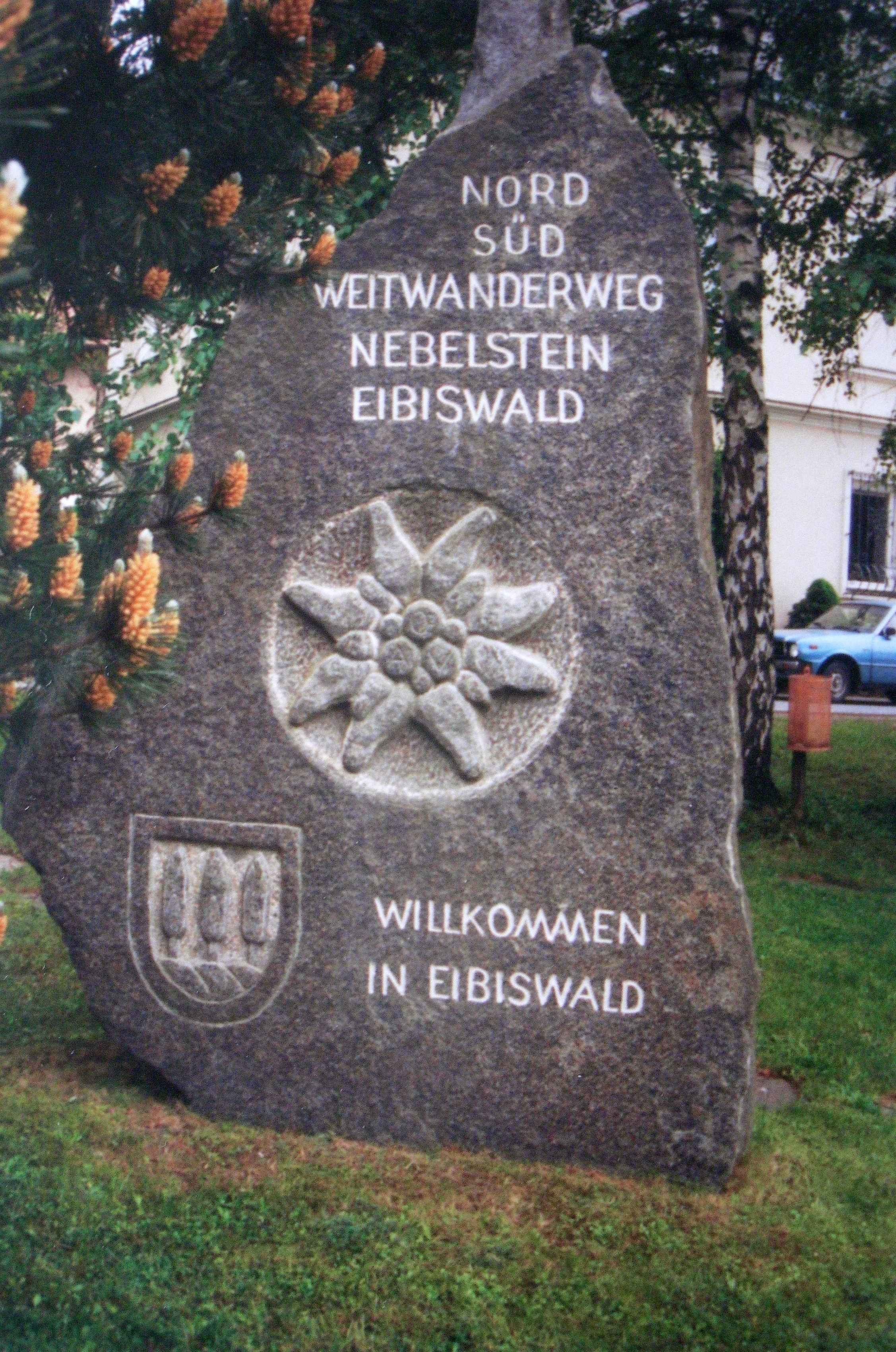 North-south distance trail Nebelstein - Eibiswald 05 (E6), end stone by sculptor Carl Hermann Eibiswald.